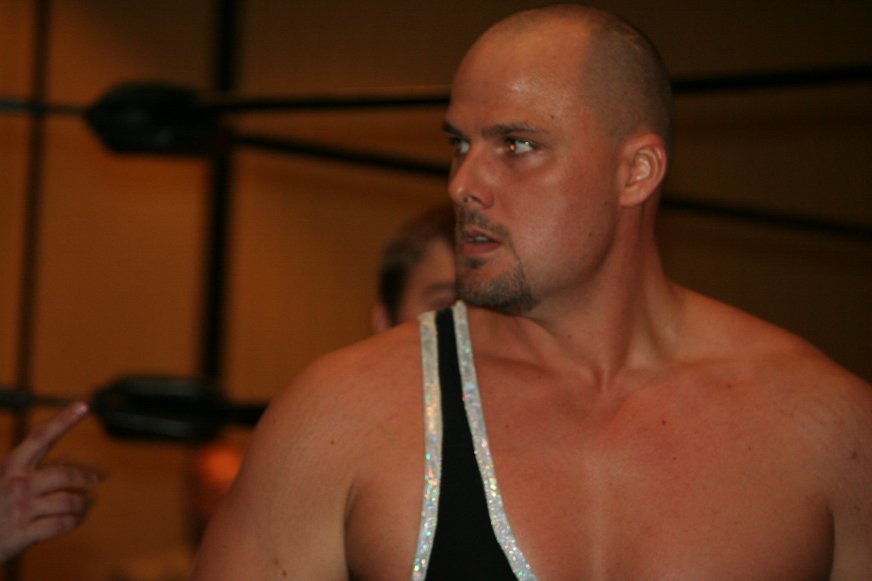 Professional wrestler Adam Pearce prior to a match at an NWA show on March 14, 2010, where he challenged for and won the NWA World Heavyweight Championship.